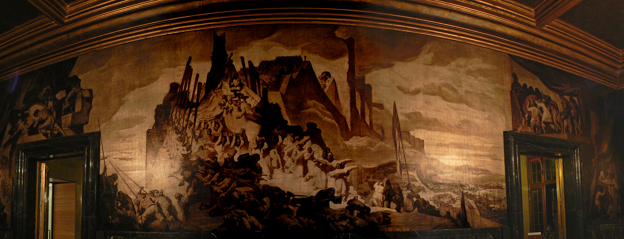 Barcelona, City Hall. Saló de Cròniques. Paintings by Josep Maria Sert.